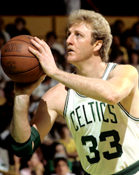 Boston Celtics Larry Bird, 1985 NBA Playoffs game 2 vs the Detroit Pistons